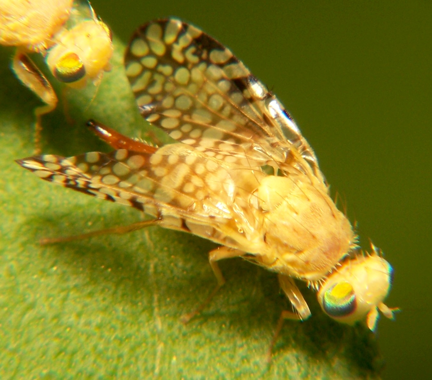 Euaresta aequalis Adult female fruit fly, family Tephritidae